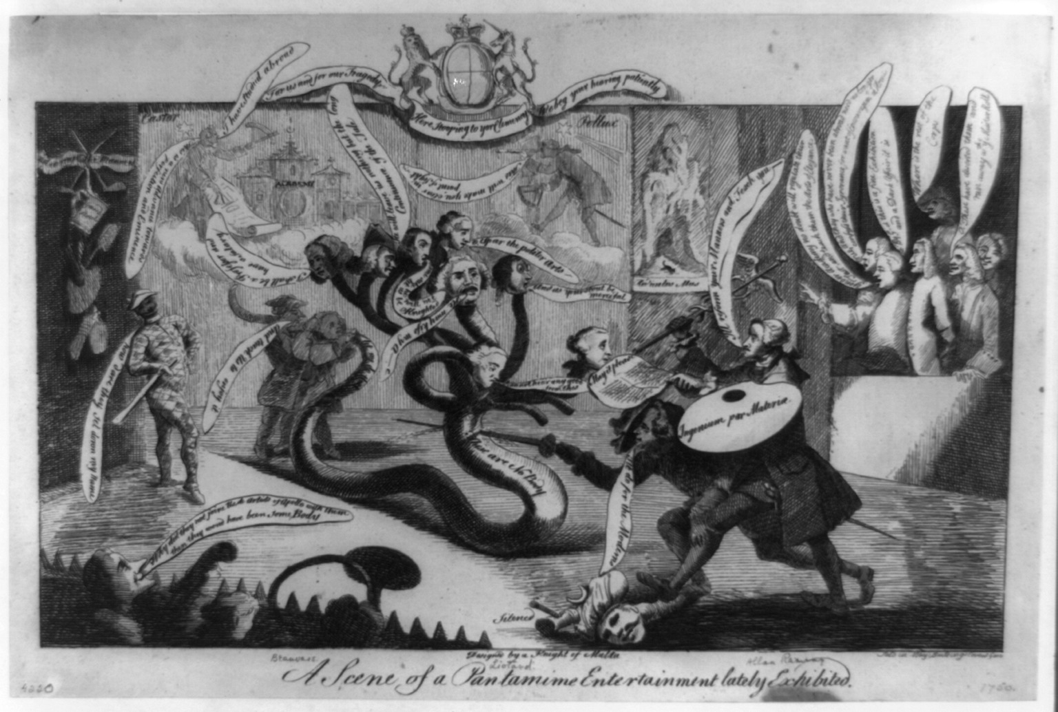 Title: A scene of a pantamime entertainment lately exhibited Abstract: Satire theater stage on which Sir William Chambers, one of the founders of the Royal Academy of Arts, is trying to slay the 8-headed hydra of the Incorporated Society of Artists. Physical description: 1 print : engraving. Notes: Forms part of : British Cartoon Prints Collection (Library of Congress).; Engraving after drawing by a Knight of Malta.; This record contains unverified data from caption card.